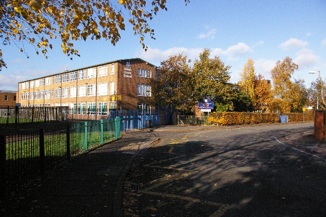 Kings Grove School, Buchan Grove This school straddles the kilometre square boundary, the far right- just out of shot is in the next square north.